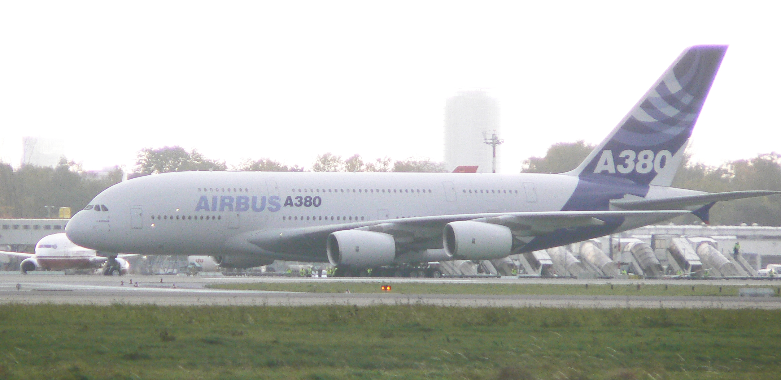 Airbus A380 at the Düsseldorf International Airport